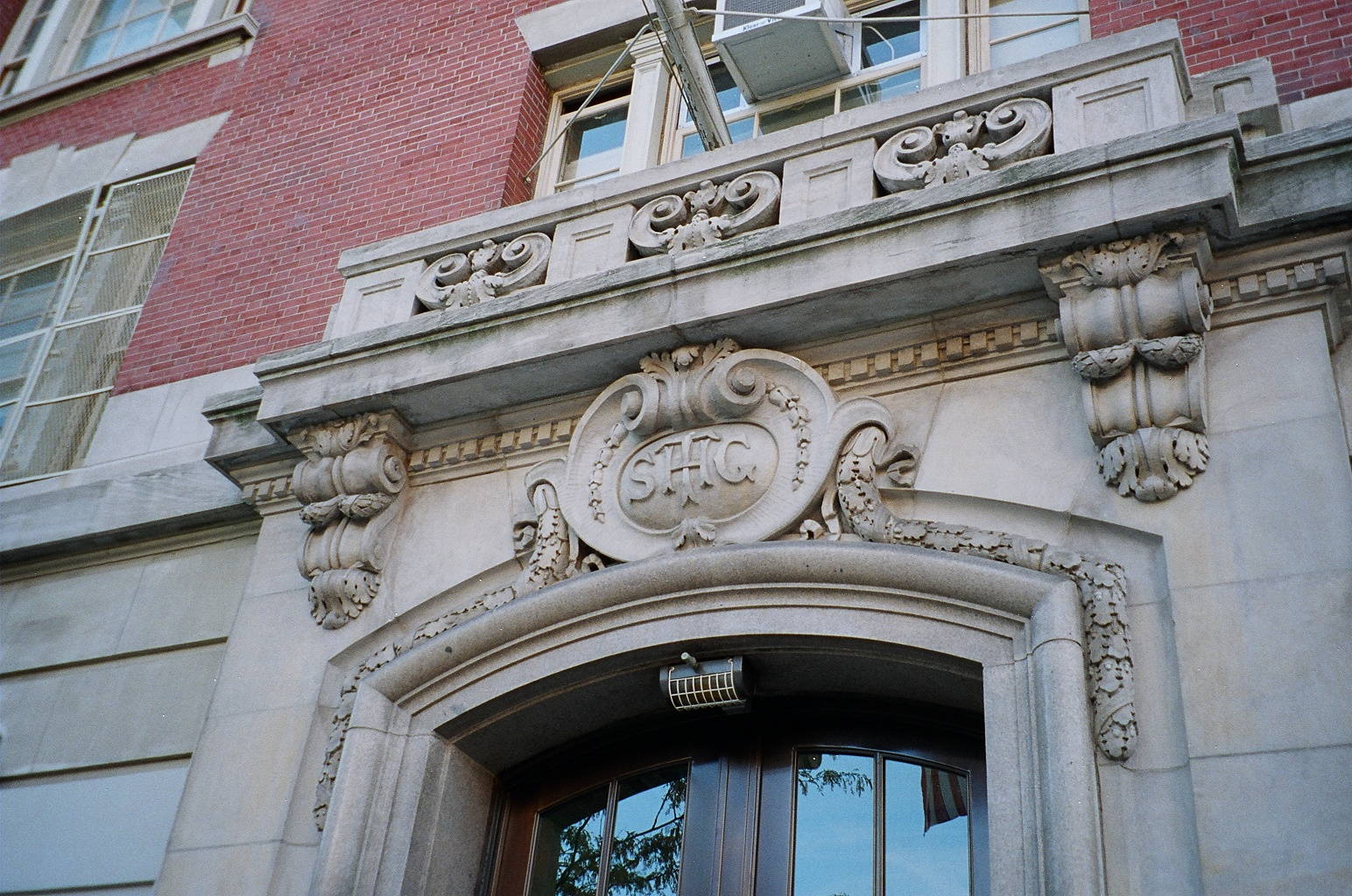 The old initials of the Hebrew Technical School for Girls are still above the door of what is now the Manhattan Comprehensive Day and Night High School--on 2nd Avenue at the corner of 15th Street.